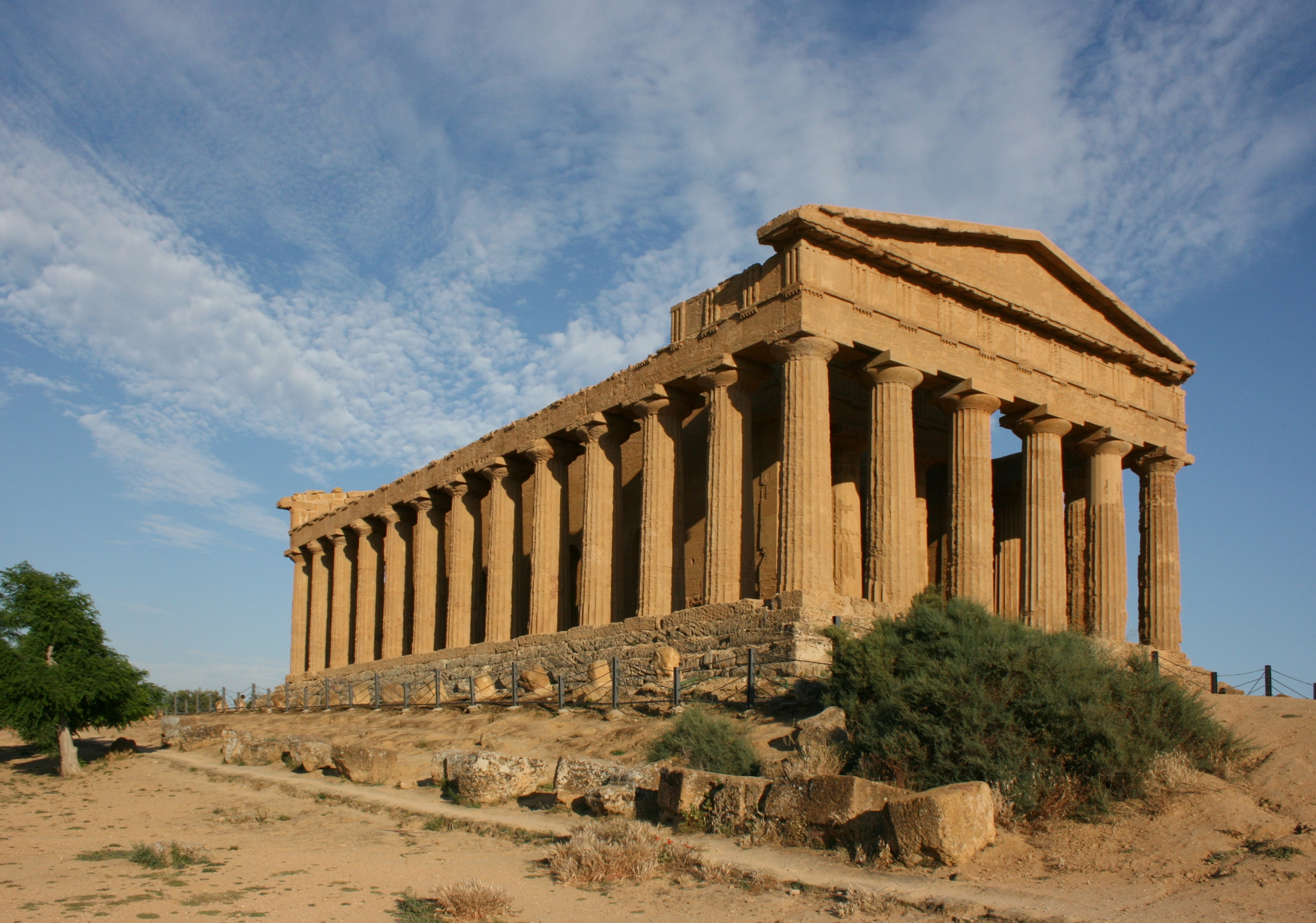 Agrigento (Sicily, Italy). Temple of Concordia.